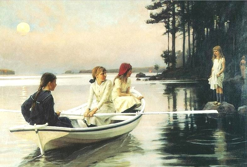 Albert Edelfelt - Kesäiltana, 1883 (Summer evening)